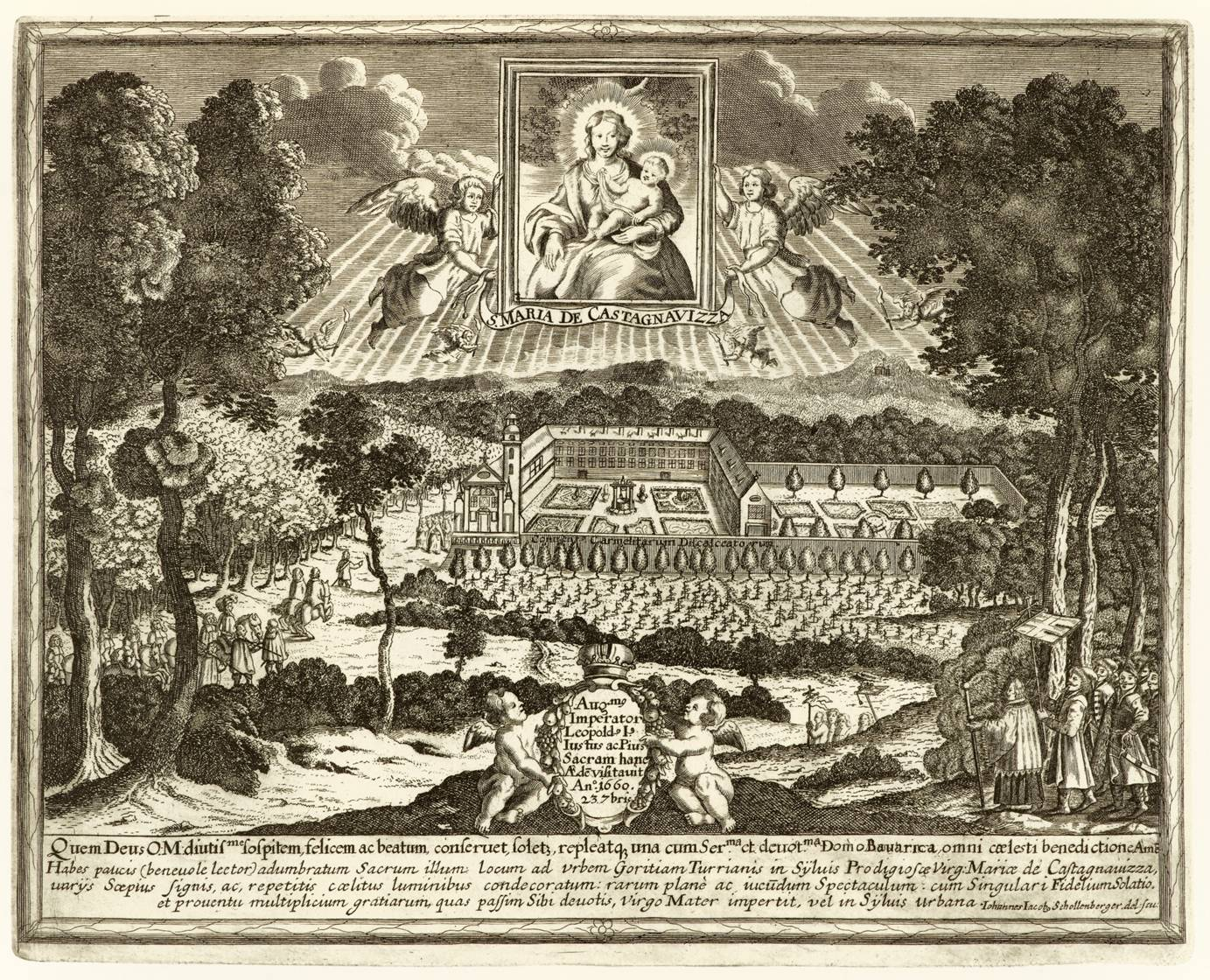 Saint Mary from Kostanjevica